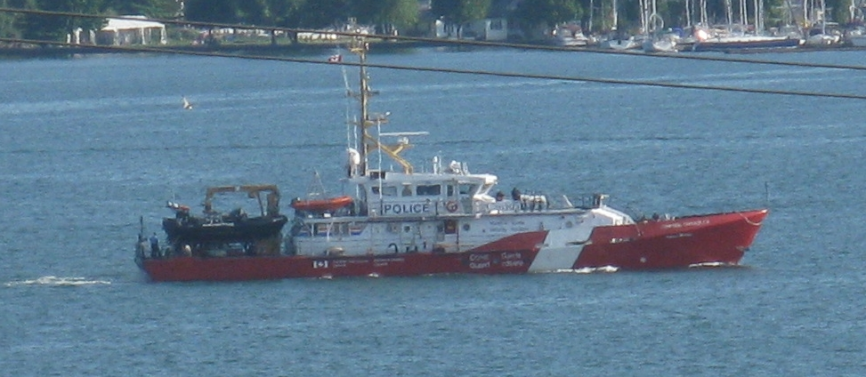 CCG Hero class patrol vessel in Toronto harbour, 2014 07 24 (41) (cropped)